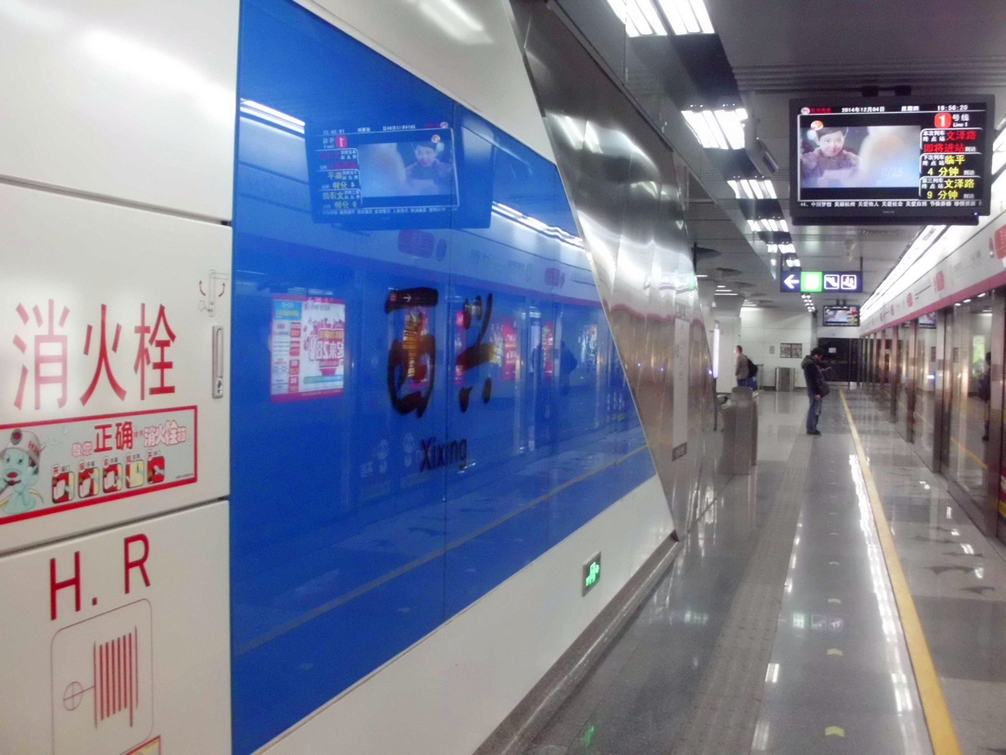 Xixing Station